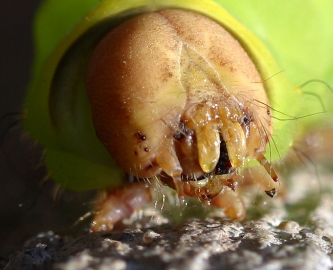 Close-up of a caterpillar's face, taken in Pittsburgh, Pennsylvania on 20 August 2006. Close up of Caterpillar_face.jpg on Wikimedia Commons by user (Tom Murphy VII). Self - work (limited to cropping)